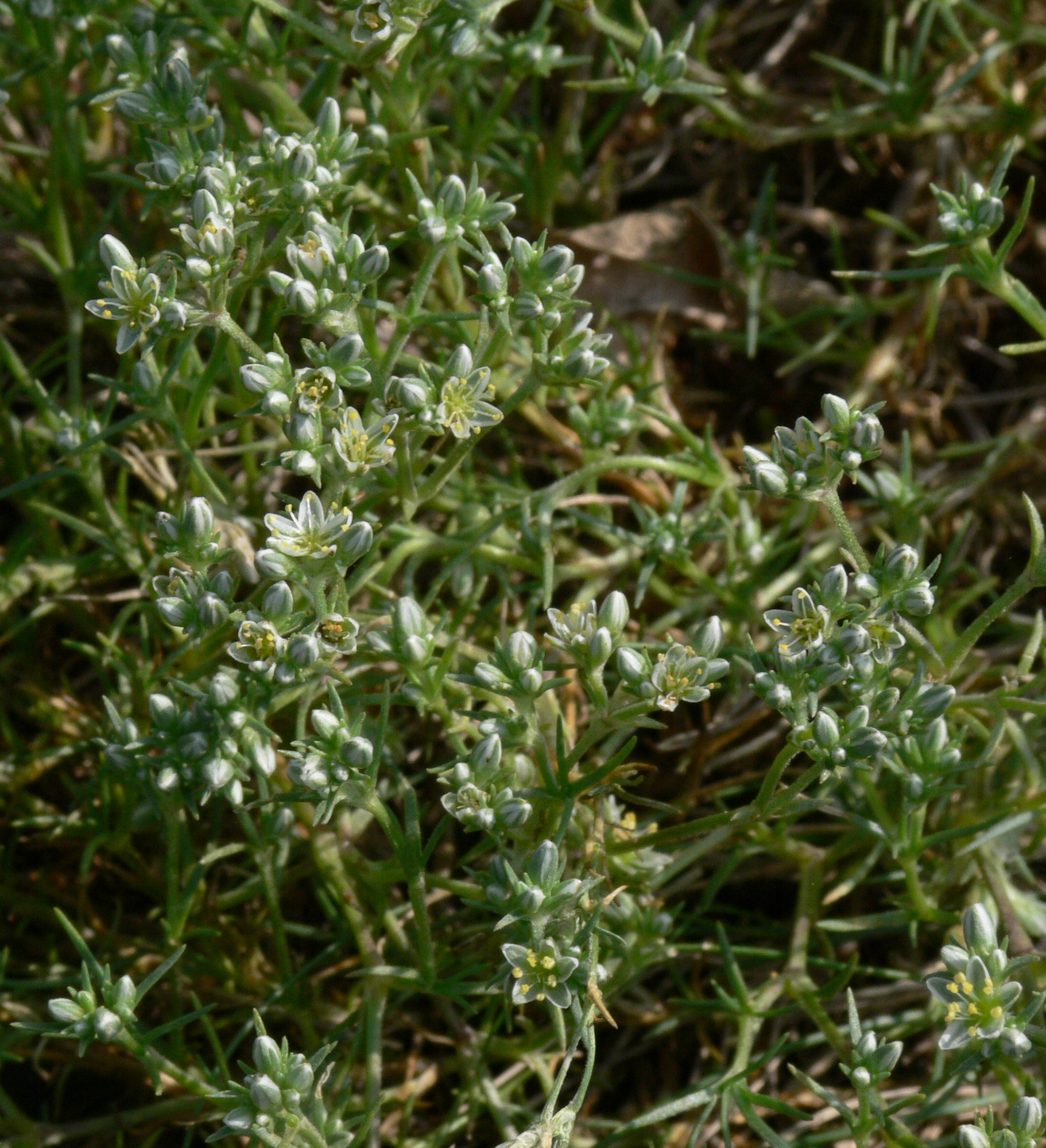 perennial knawel